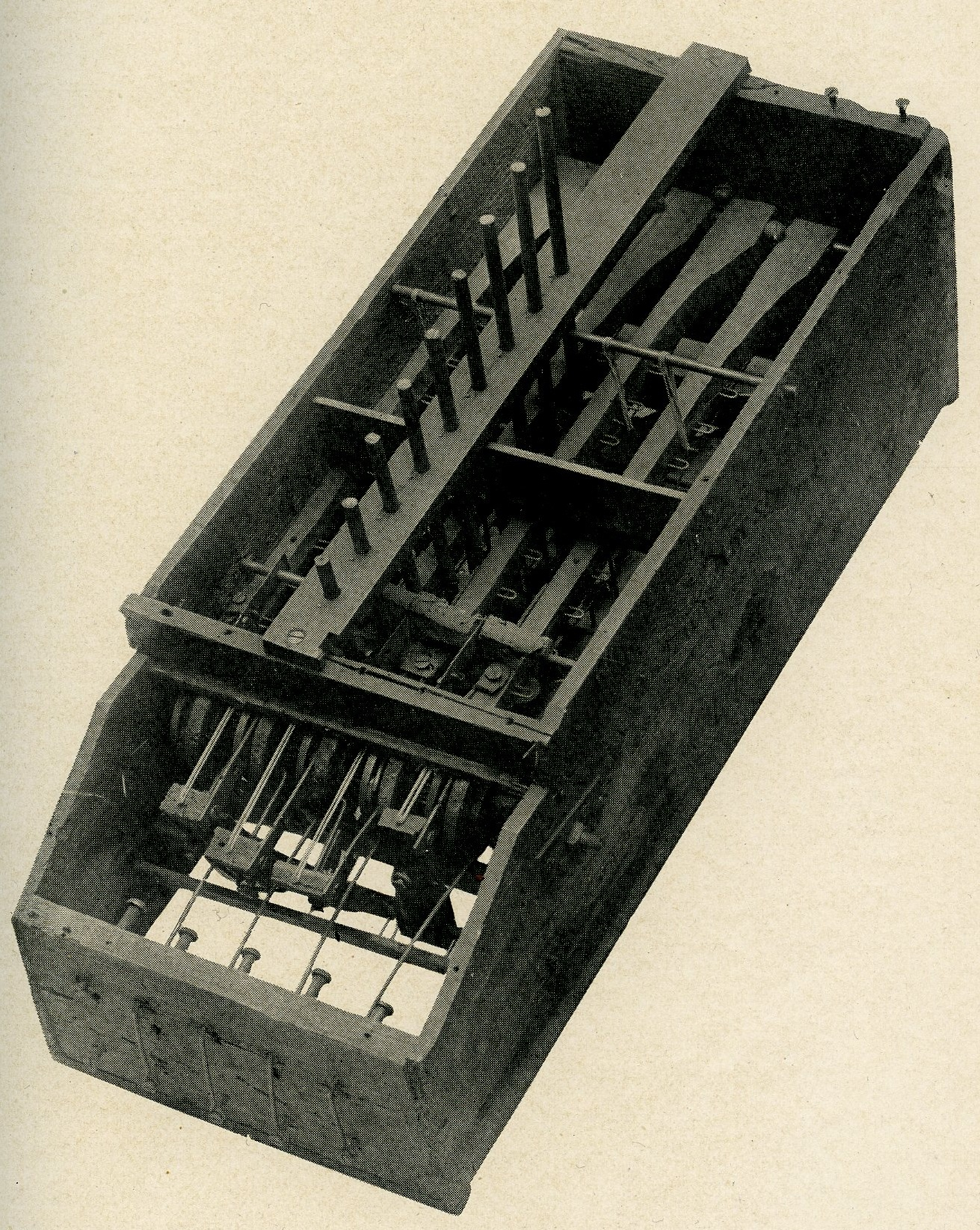 Picture of the macaroni box - prototype of the first comptometer